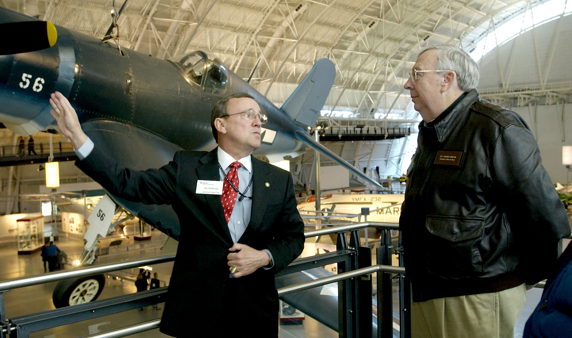 Retired Maj. Gen. Joseph T. Anderson (left) explains future growth plans for the National Air and Space Museum in Chantilly, Va., to Air Force Secretary Dr. James G. Roche on Dec. 21, 2004. Secretary Roche was at the musuem to view the Imax film "Fighter Pilot: Operation Red Flag.“ The film follows a young American fighter pilot through his experiences at Red Flag, the international training exercise for allied air forces. U.S. Air Force photo by Master Sgt. Jim Varhegyi. Released under ID 041221-F-3050V-004.